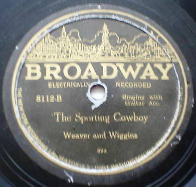 The Sporting Cowboy by Weaver and Wiggins [Wilmer Watts & Frank Wilson], Broadway 1927.